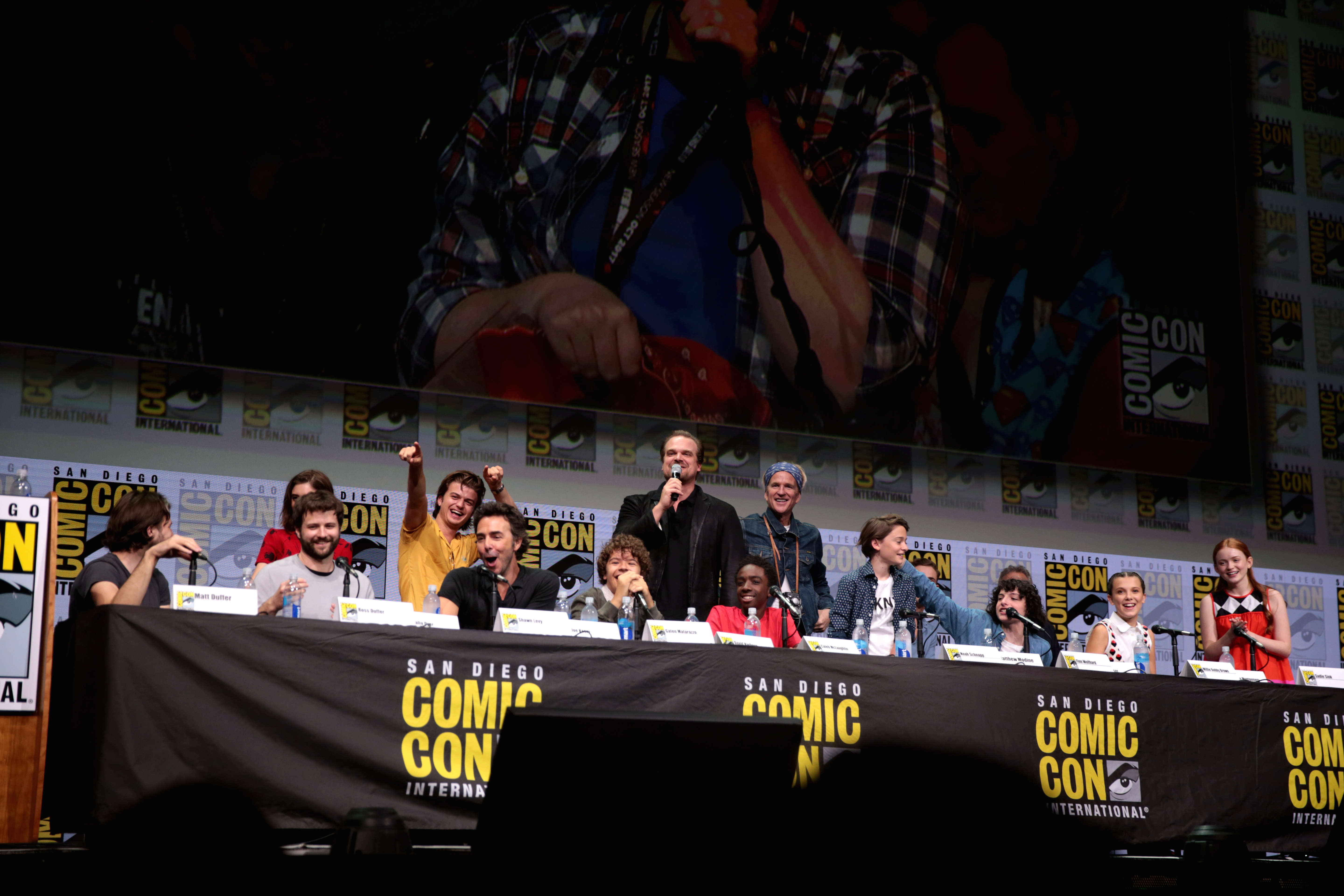 Matt Duffer, Natalie Dyer, Ross Duffer, Joe Keery, Shawn Levy, David Harbour, Gaten Matarazzo, Caleb McLaughlin, Matthew Modine, Noah Schnapp, Dacre Montgomery, Finn Wolfhard, Paul Reiser, Millie Bobby Brown and Sadie Sink speaking at the 2017 San Diego Comic Con International, for "Stranger Things", at the San Diego Convention Center in San Diego, California.